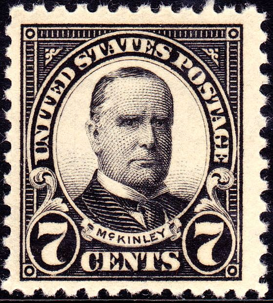 US Postage stamp: McKinley, Issue of 1923, 7c